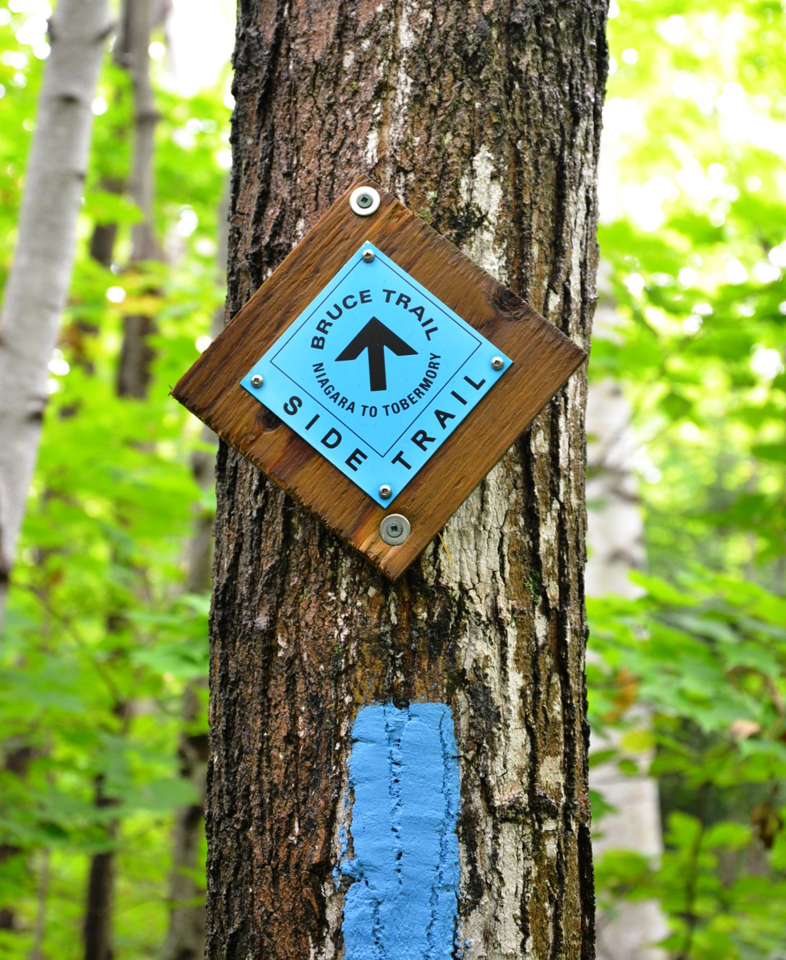 The Bruce Trail - marking of the side trail near Lion's Head